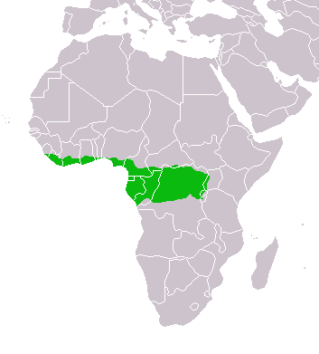 Distribution map of the Water Chevrotain (Hyemoschus aquaticus)